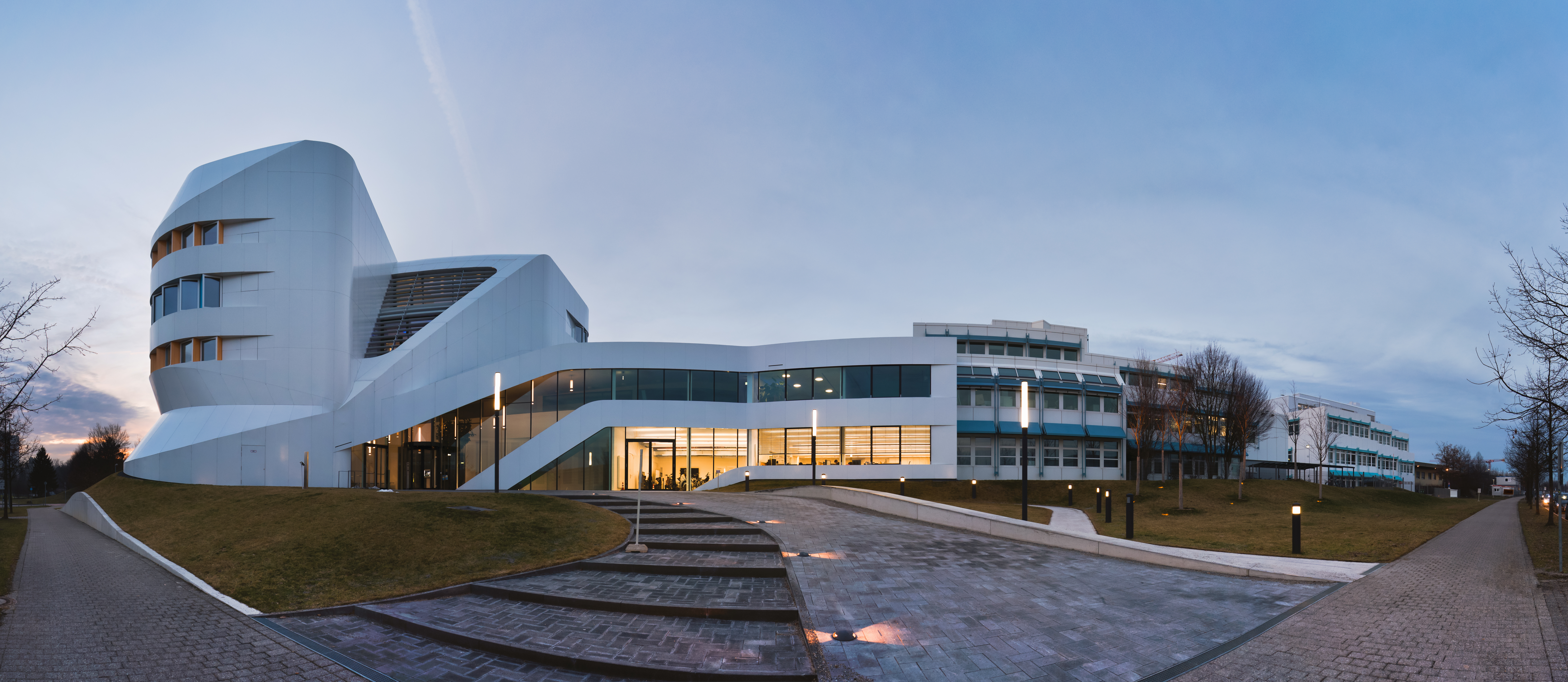 Center for Virtual Engineering (ZVE), Fraunhofer IAO, Stuttgart, Germany. This image was created with Hugin. This image was created with Blender.